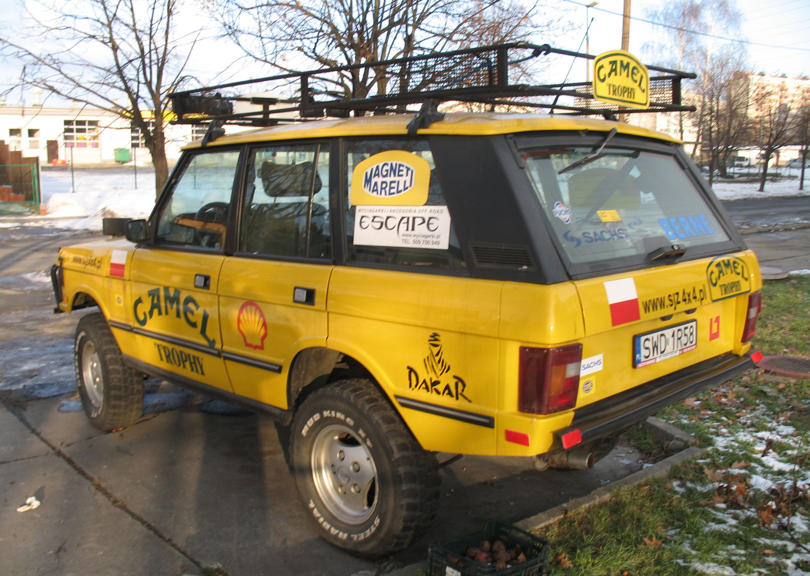 Yellow Range Rover Mk1 SUV Camel Trophy in Kraków, Poland.